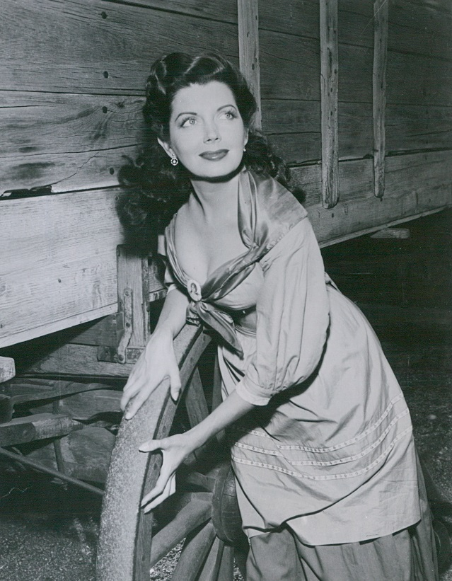 press photo of Jane Adams on Adventures of Wild Bill Hickok in 1952